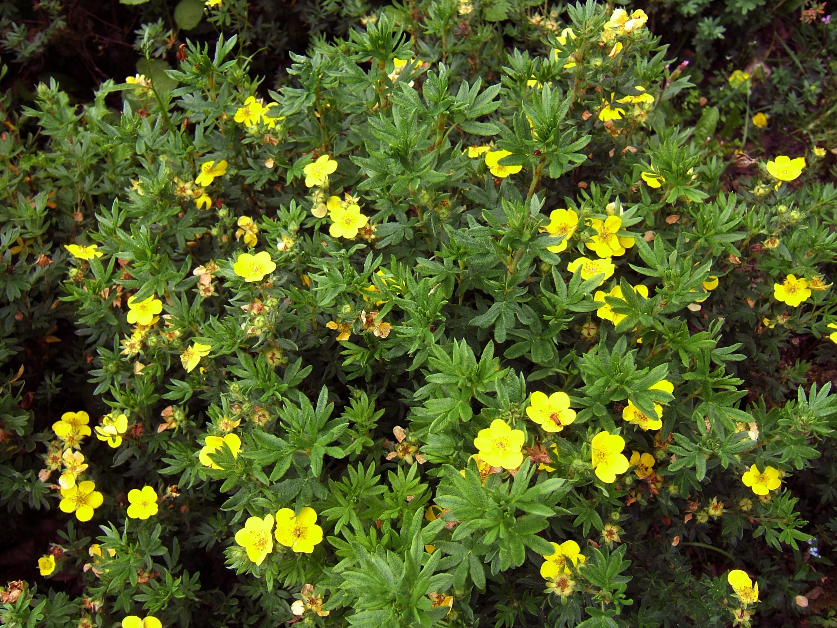 Dasiphora fruticosa subsp. fruticosa. Cultivated at Newcastle University Botanic Gardens; seed origin Upper Teesdale, approx 54°39'N 2°15'W (type locality of the species)